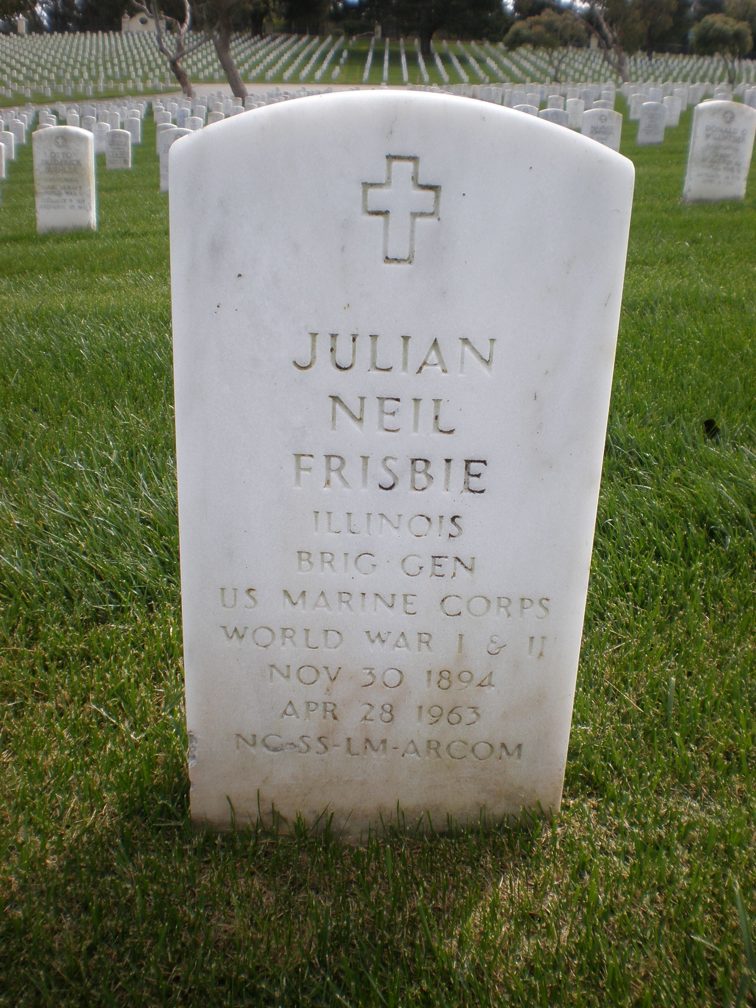 The headstone of Brig. General Julian Neil Frisbie at Golden Gate National Cemetery in San Bruno, California.